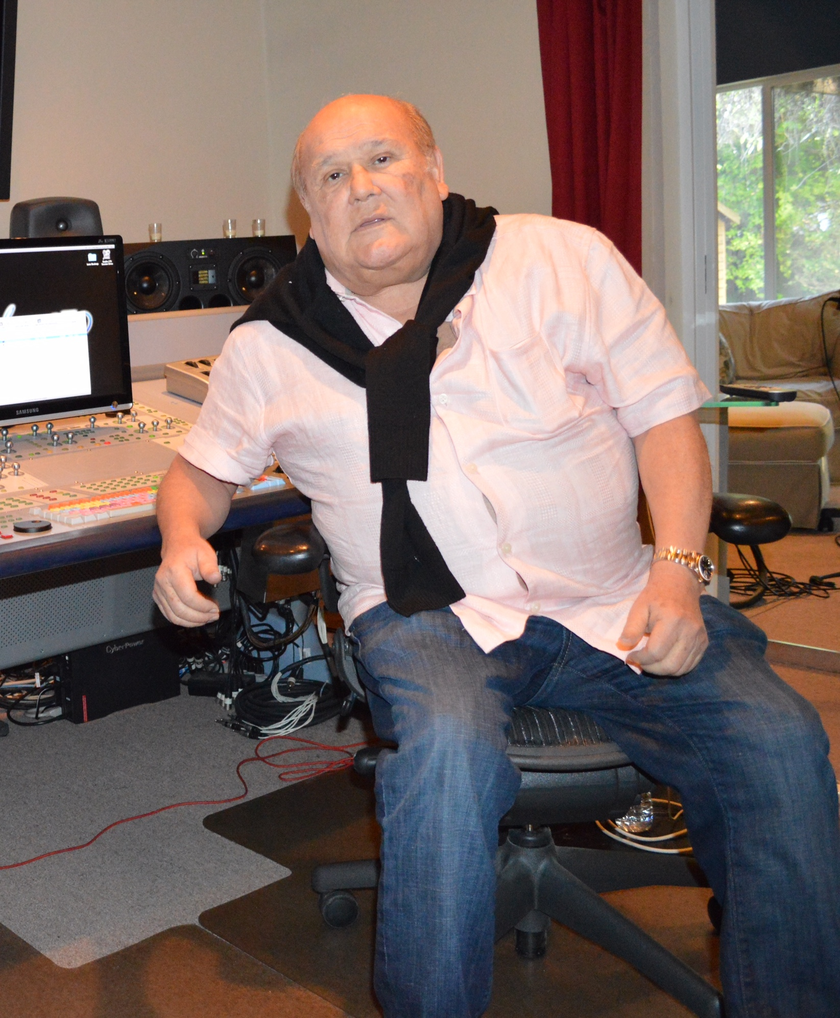 Leo Dan in the studio